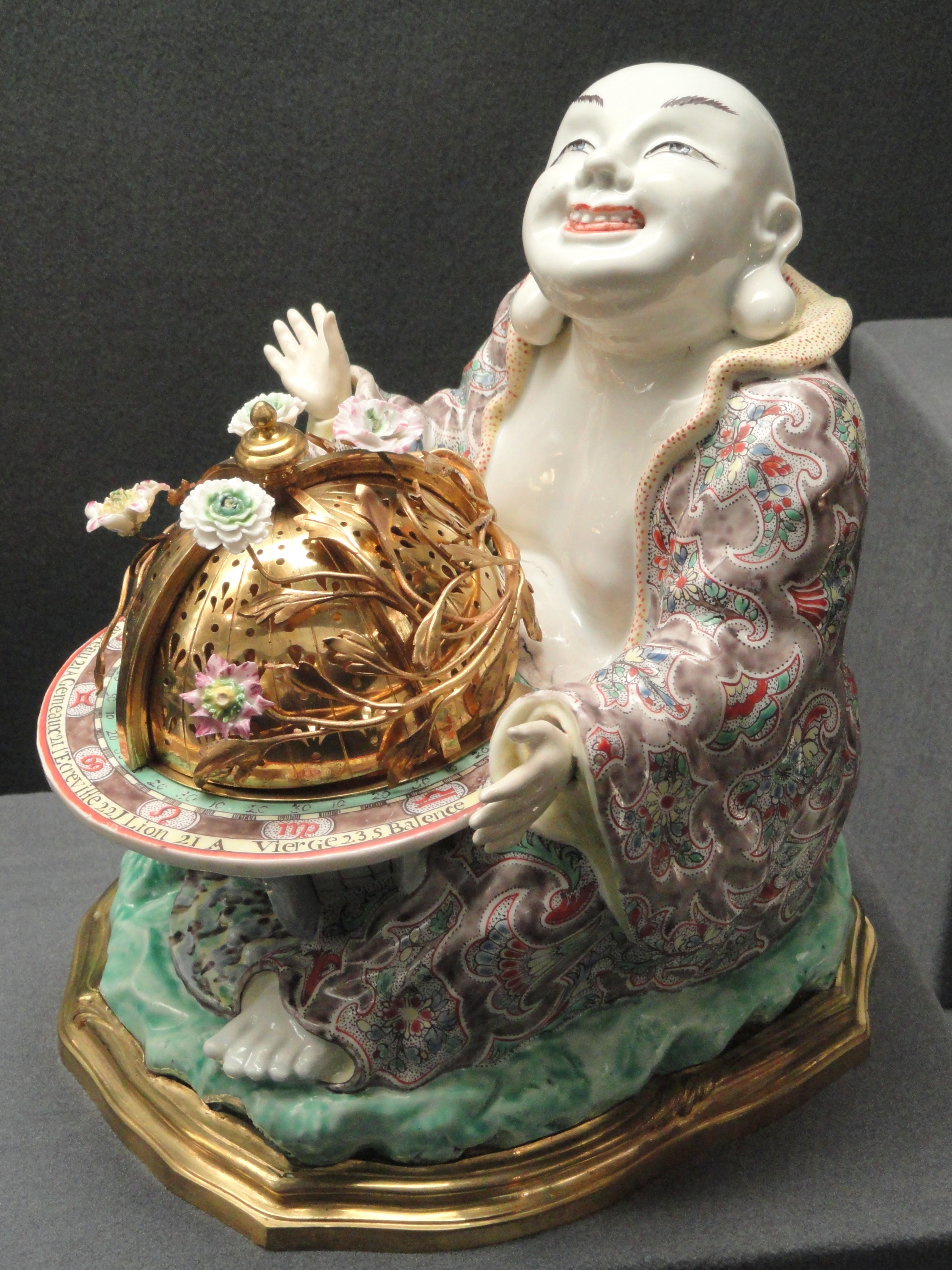 Perfume burner in the form of a magot, c. 1740-1745, Chantilly in Kakiemon style, soft-paste porcelain, tin-opacified lead glaze, overglaze enamels, gilt bronze. Exhibit in the Gardiner Museum, Toronto, Ontario, Canada. This artwork is in the public domain because the artist died more than 70 years ago.